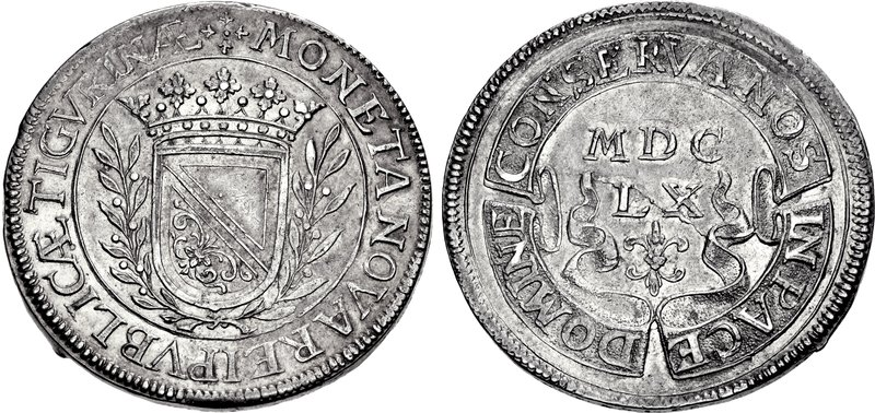 SWITZERLAND, Kanton Zürich. Zürich. AR Taler (‘Wasertaler’) (41mm, 28.30 g, 12h). Dated 1660 in Roman numerals. MONETA NOVA REIPVBLICÆ TIGVRINÆ, crowned coat-of-arms within wreath / DOMINE CONSERVA NOS IN PACE inscribed upon banner, MDC/L•X (date) in two lines; lis below. HMZ, Schweiz, 2-1146l; Divo & Tobler 1075 (same dies as illustration); Davenport 4648 (same dies as illustration); KM 88 (same dies as illustration). EF, toned. Rare.